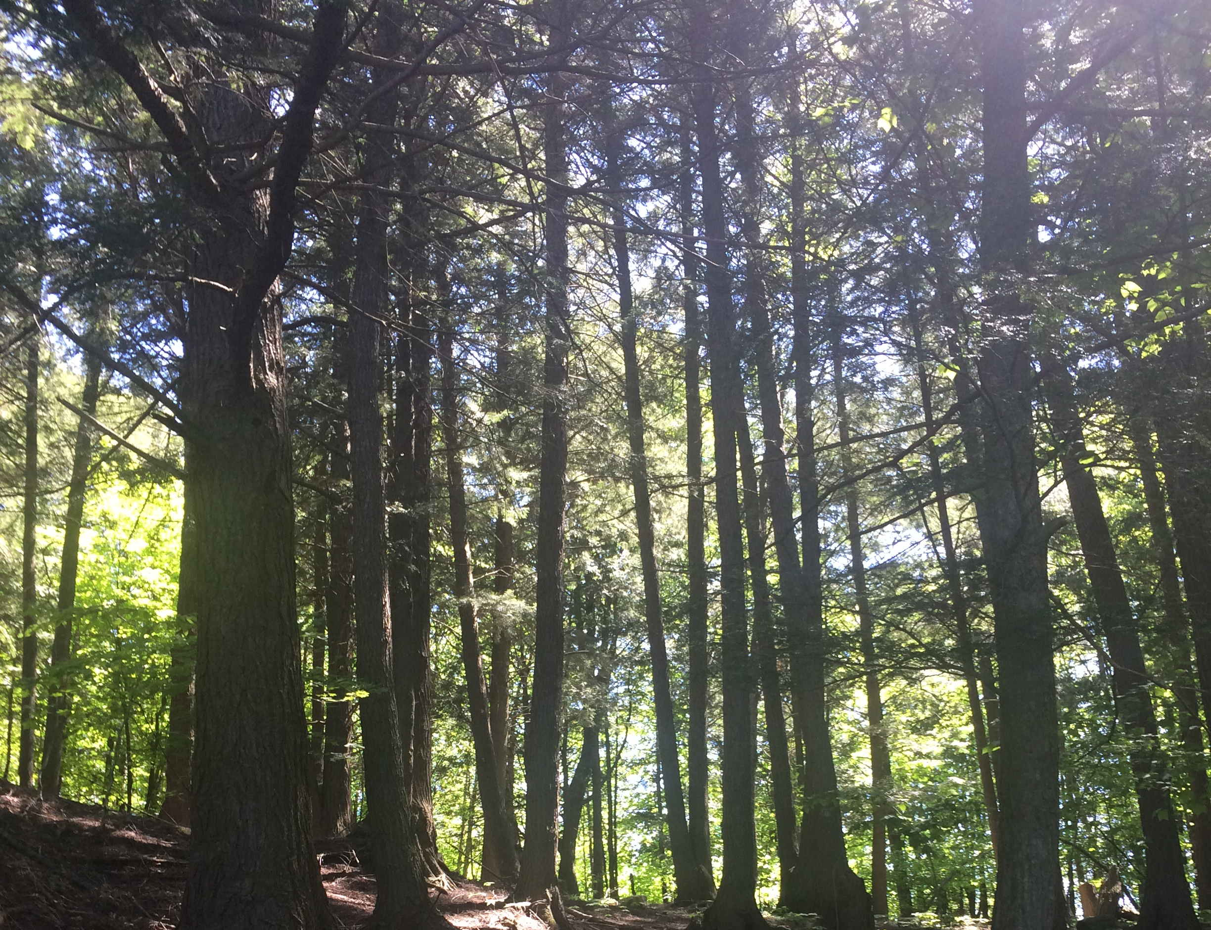 June sun in the boreal forest of southern Canada